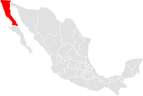 A map of the mexican state of baja california made by me